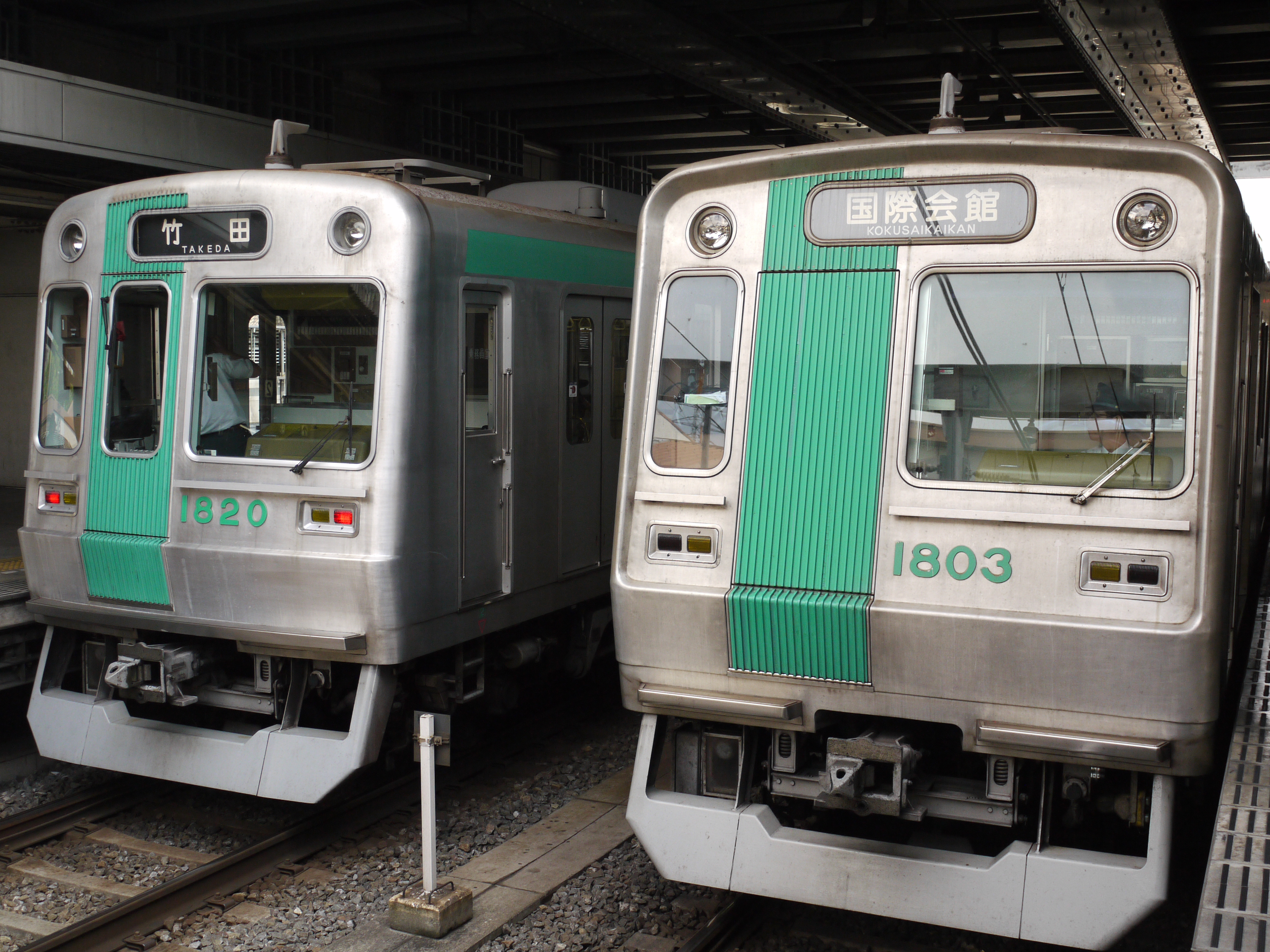 Kyoto city subway 10 series batch 1 (right) and batch 6(left)